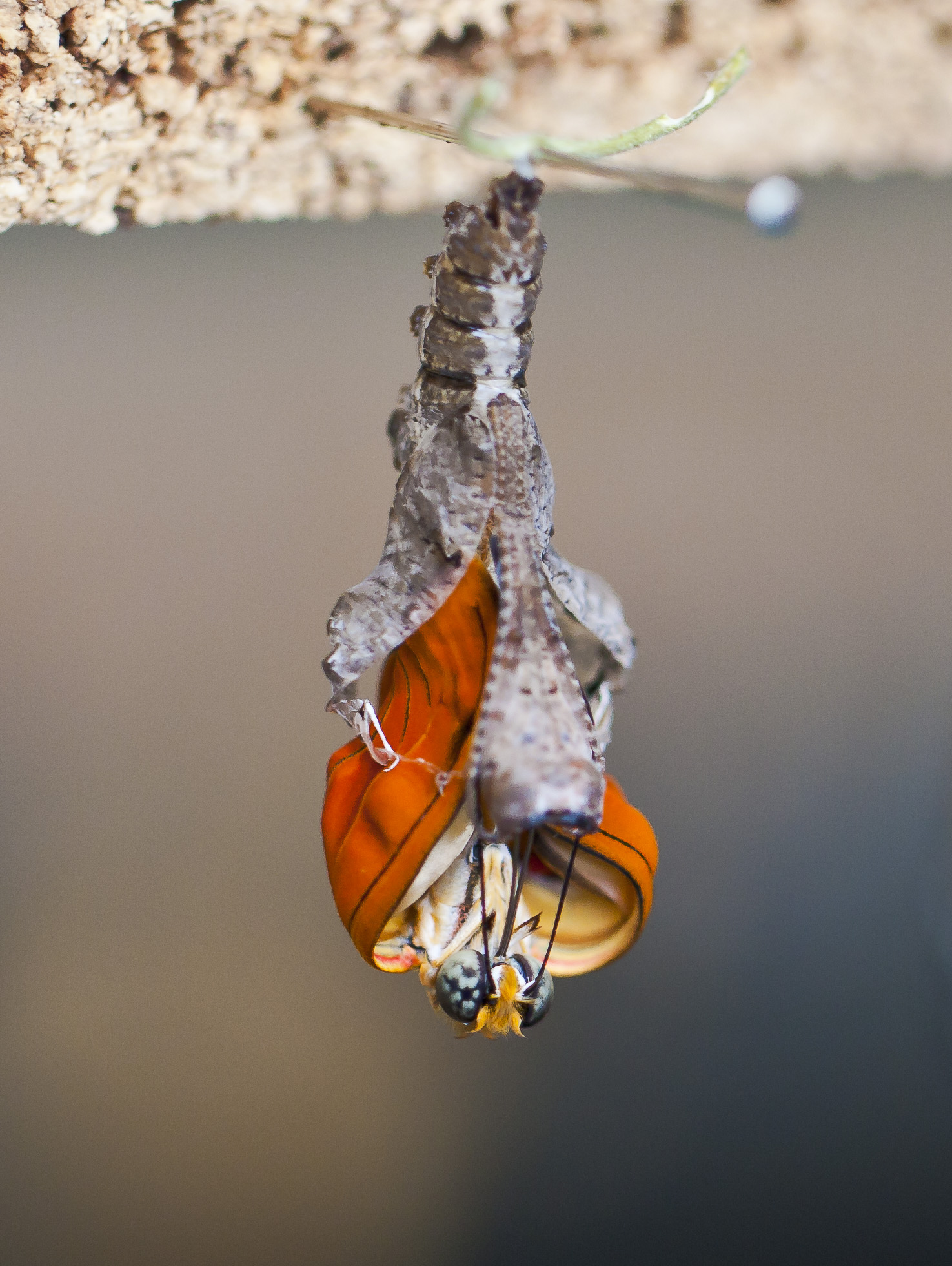 Birth of a Dryas iulia, Butterfly zoo of Icod de los Vinos, Tenerife, Spain